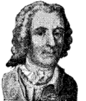 Mattias Alexander von Ungern-Sternberg (1689-1763), swedish politician